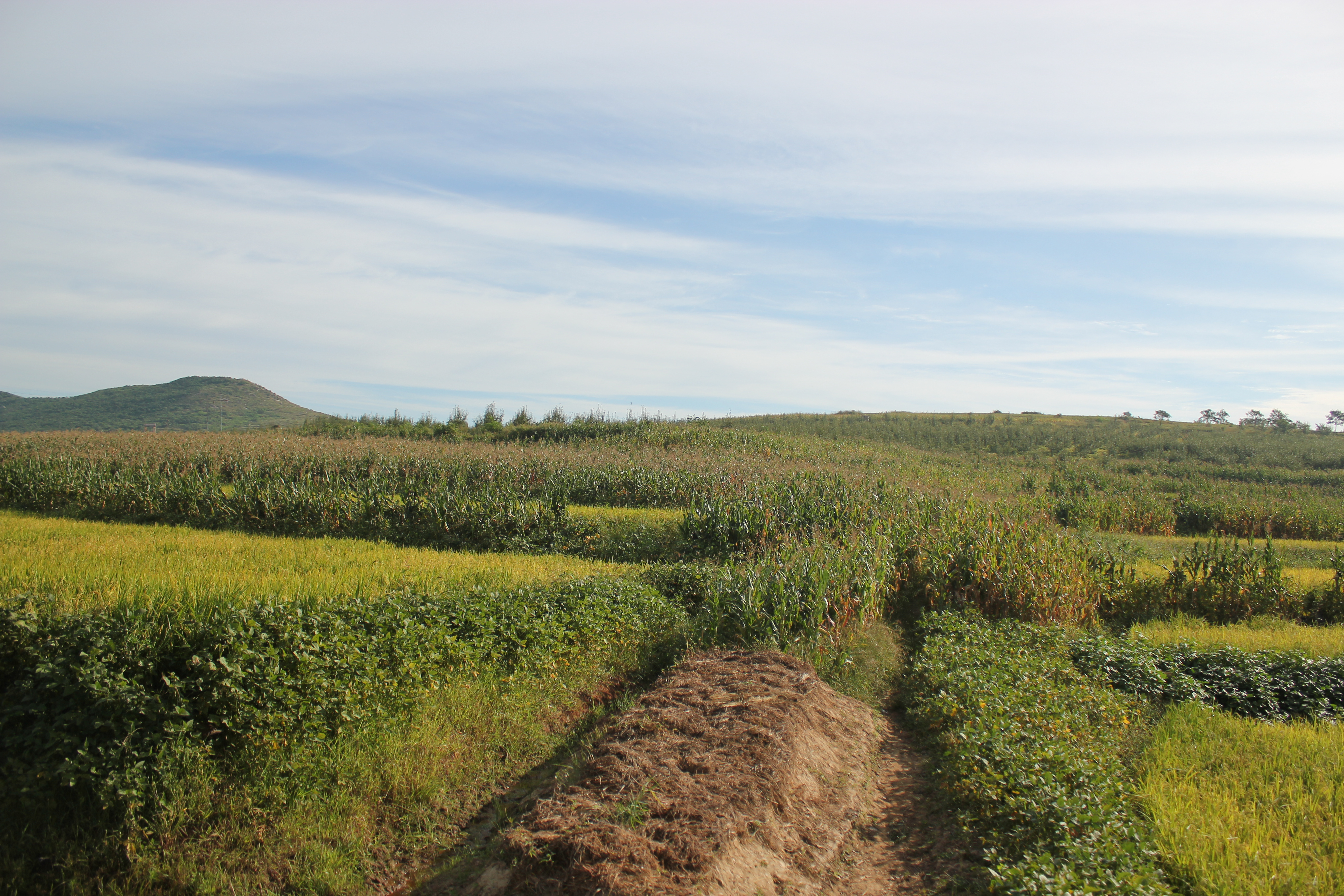 Potatao mounds near Nampo North Korea